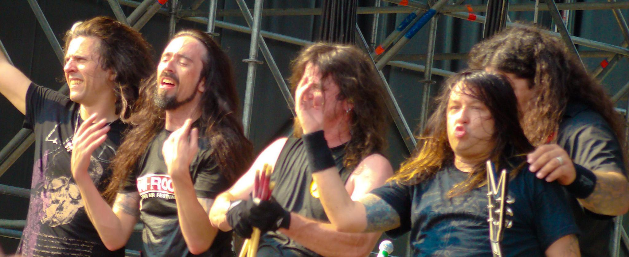 Band picture. Classic lineup.